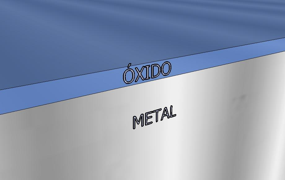 Anodization amorphous oxide barrier